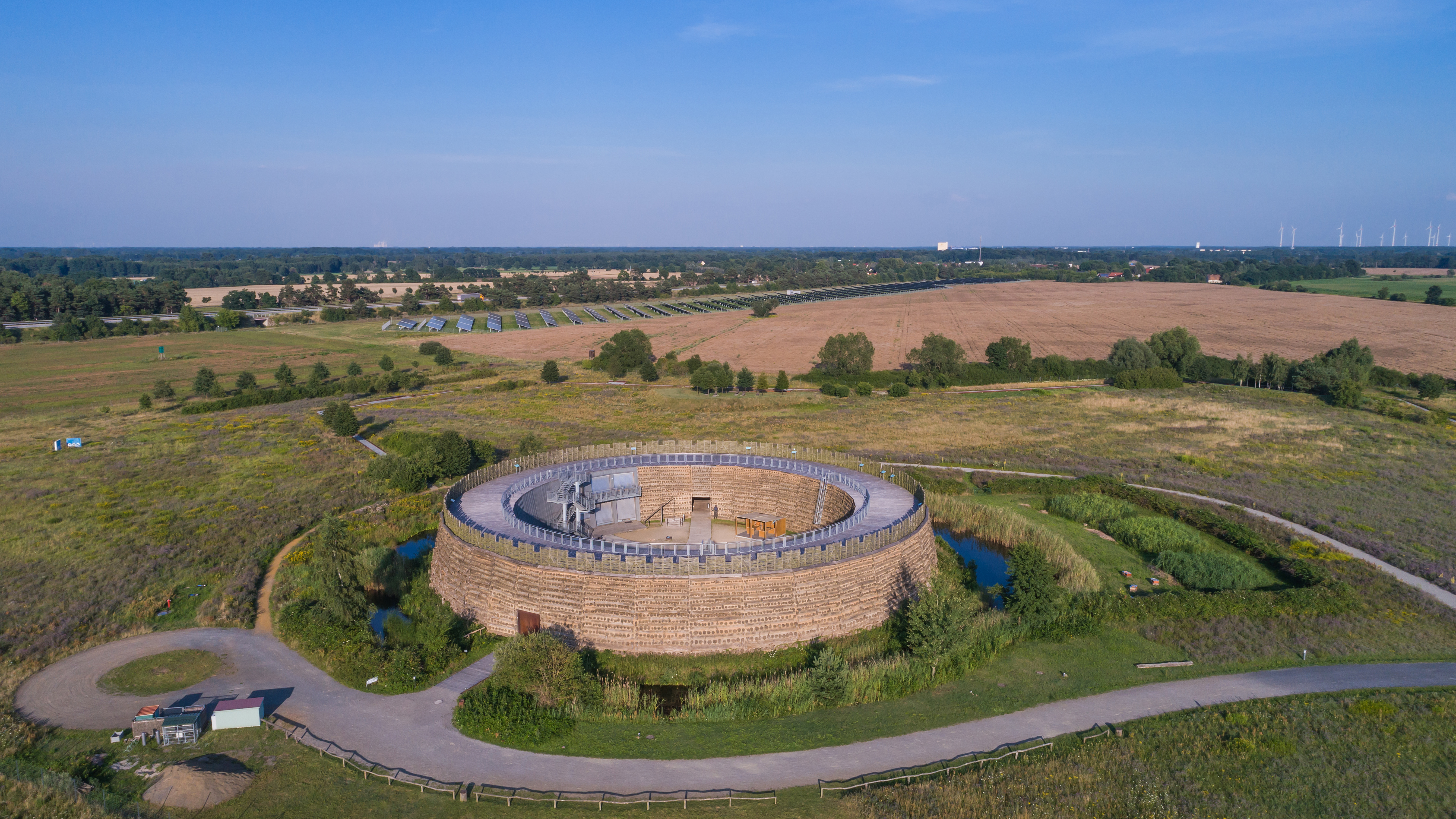 Aerial photo of Slavic Castle of Raddusch (Brandenburg, Germany)